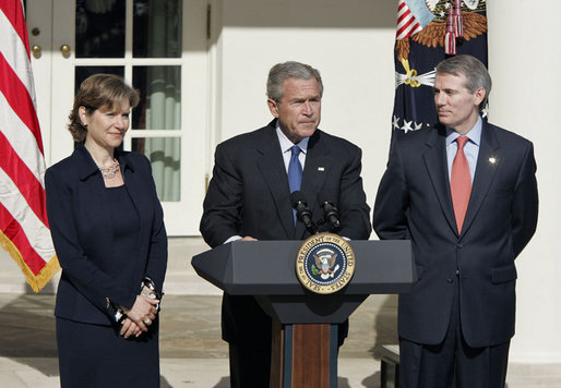 President George W. Bush announces the nomination of Rob Portman as Director of the Office of Management and Budget and Susan Schwab as the U.S. Trade Representative in the Rose Garden Tuesday, April 18, 2006. White House photo by Paul Morse.